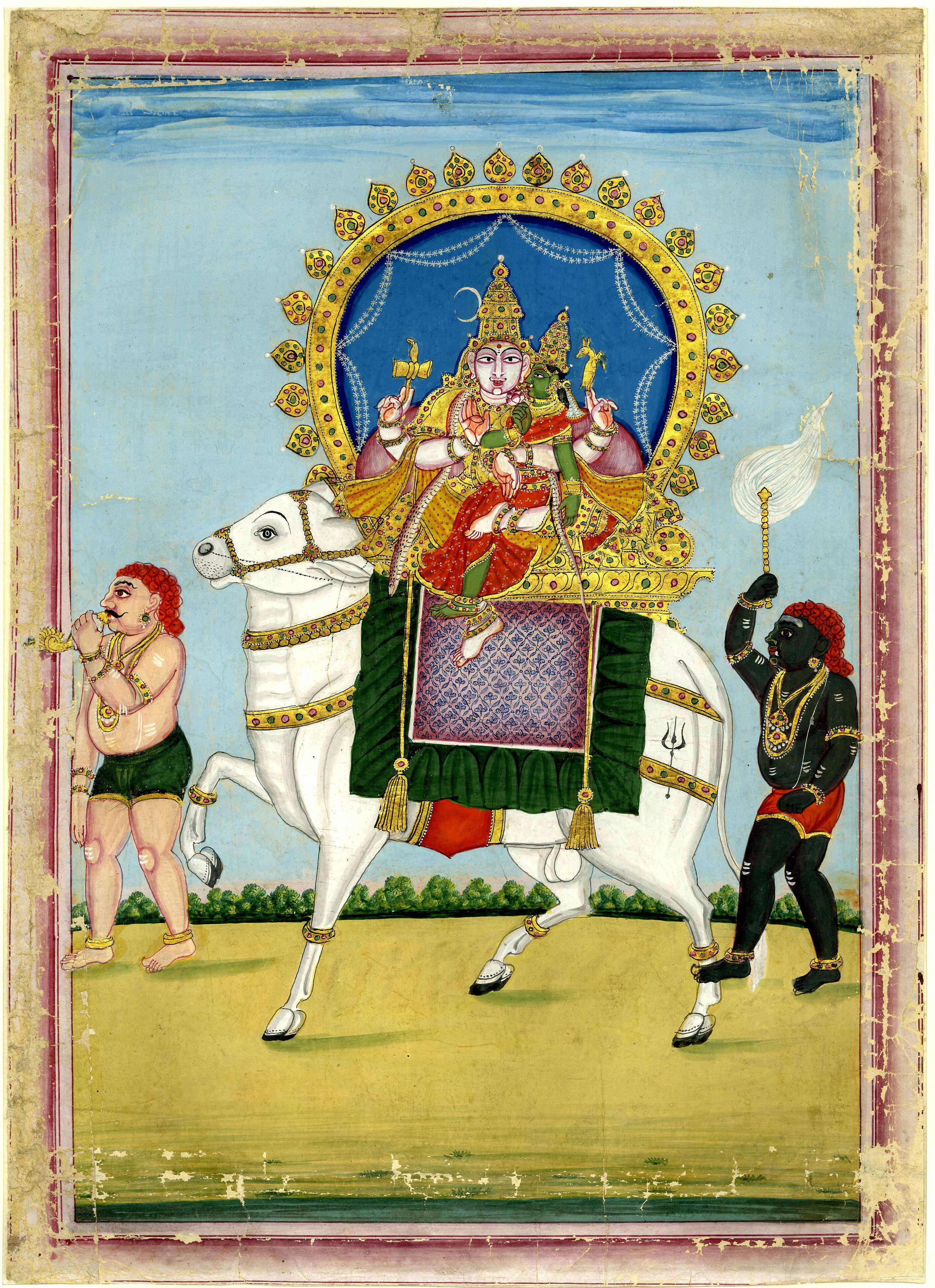 Shiva-Parvati on Nandi with Bhutagana